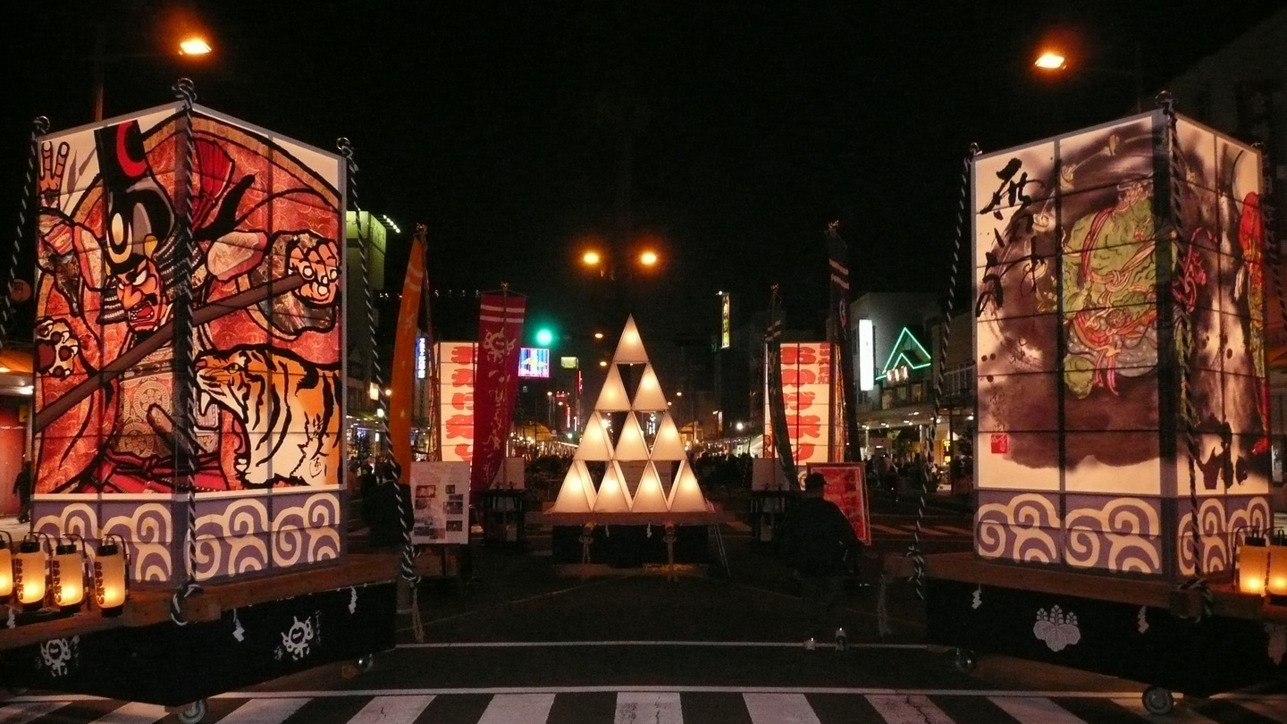 Miyazaki Shrine Grand Festival in 2008 - Miyakonojo June Light.